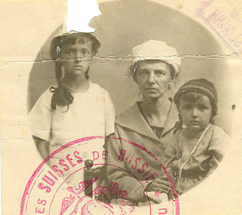 A Swiss mother and her young daughters leaving Russia during Russian civil war. Probably 1921.